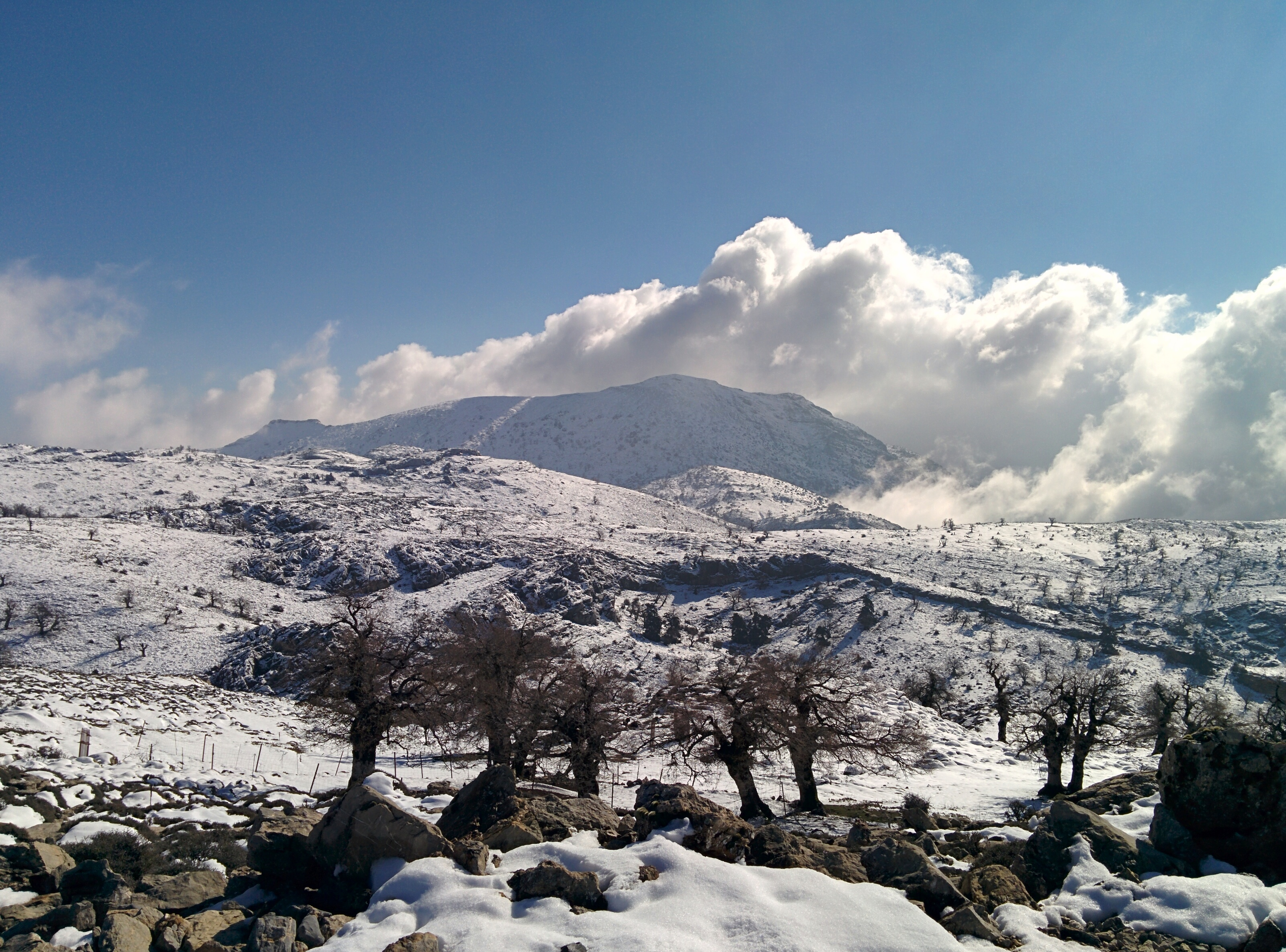 The Torrecilla peak in Sierra de las Nieves (Malaga, Andalucia, Spain) 1.919m with snow